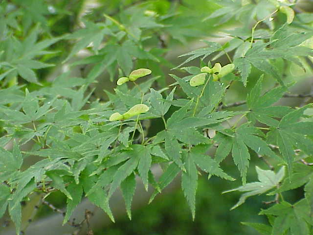 Species: Acer palmatum Family: Aceraceae Image No. 1